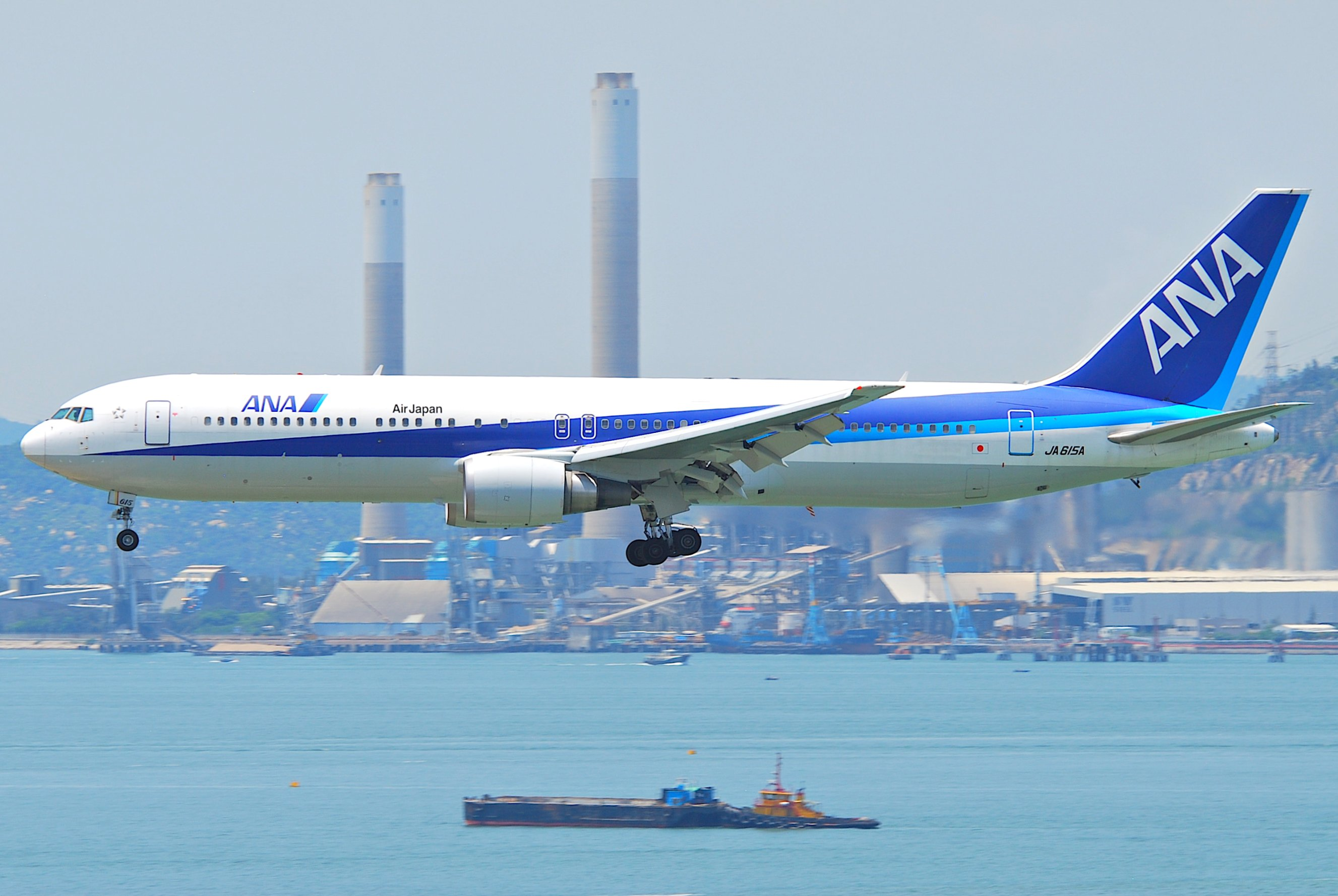 This Boeing 767-381ER took its first flight on January 18, 2007...